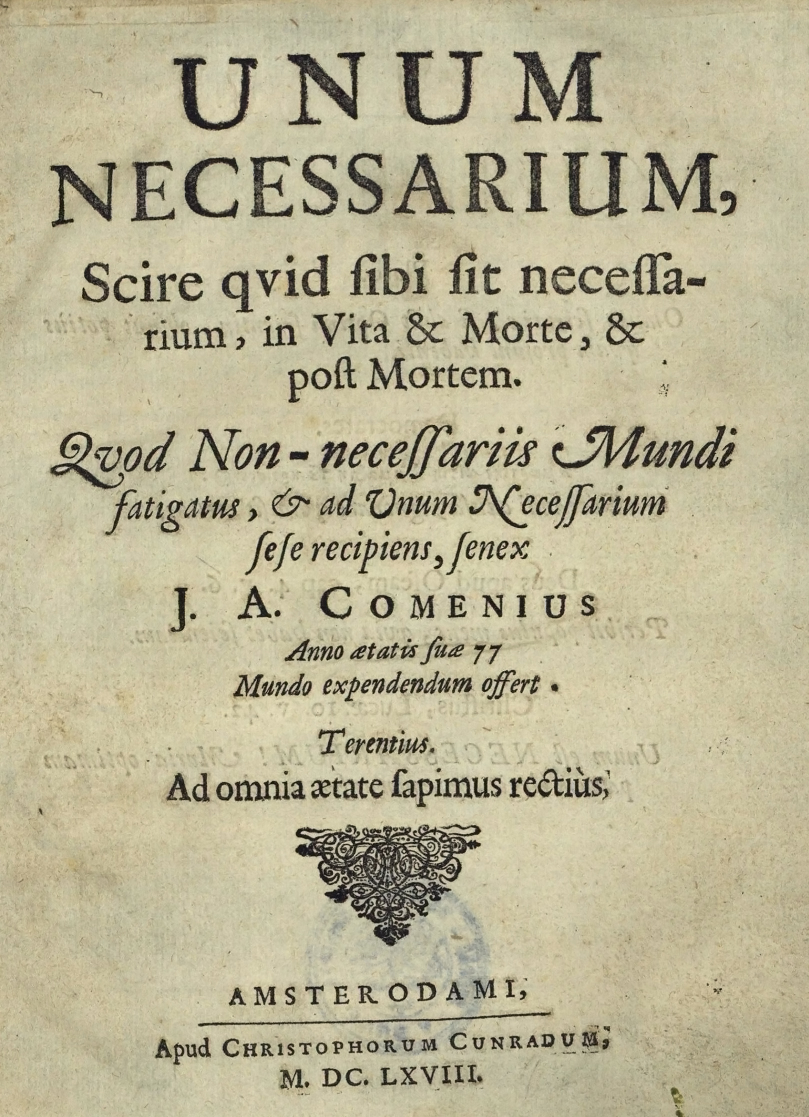 John Amos Comenius: Unum Necessarium. Cover of the first edition 1668, Amsterdam